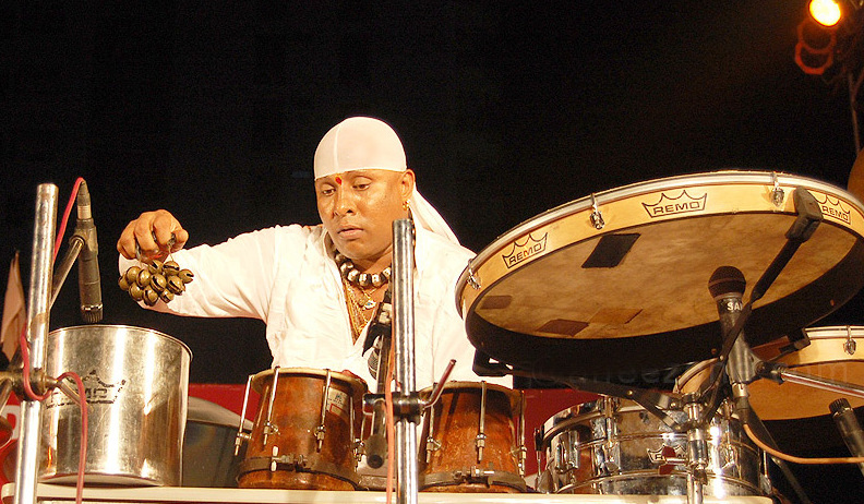 Sivamani in a musical programme performed in Kochi (2009)